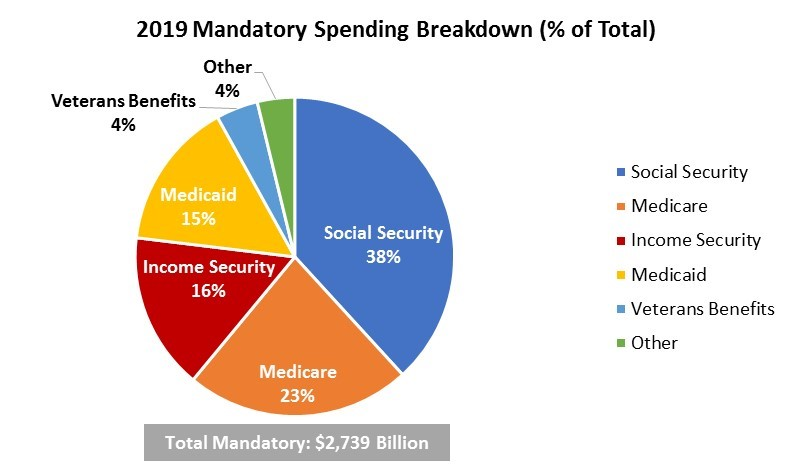 Snapshot of 2019 mandatory government spending.